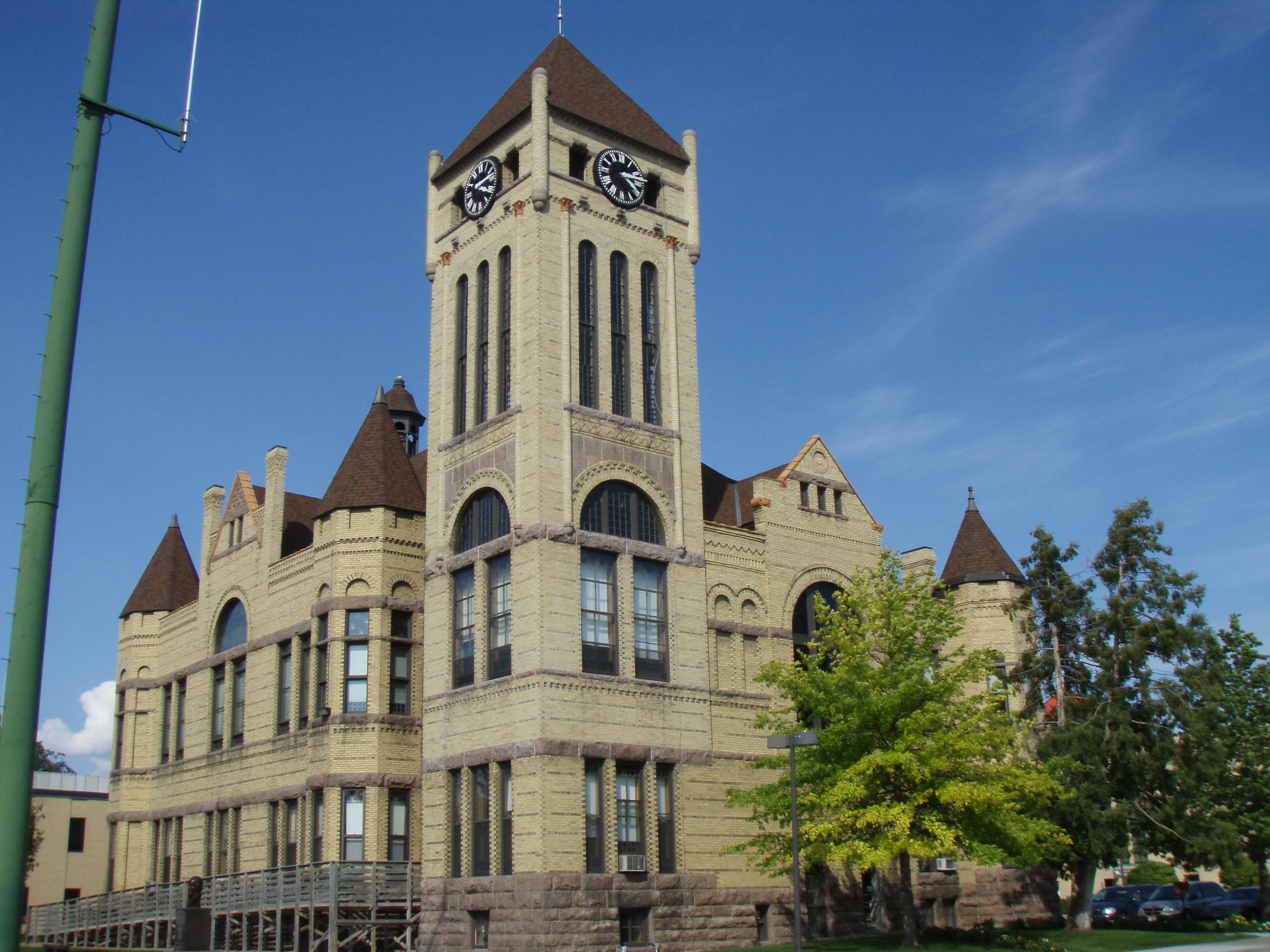 Morrison County Courthouse in Little Falls, Minnesota, listed on the National Register of Historic Places.